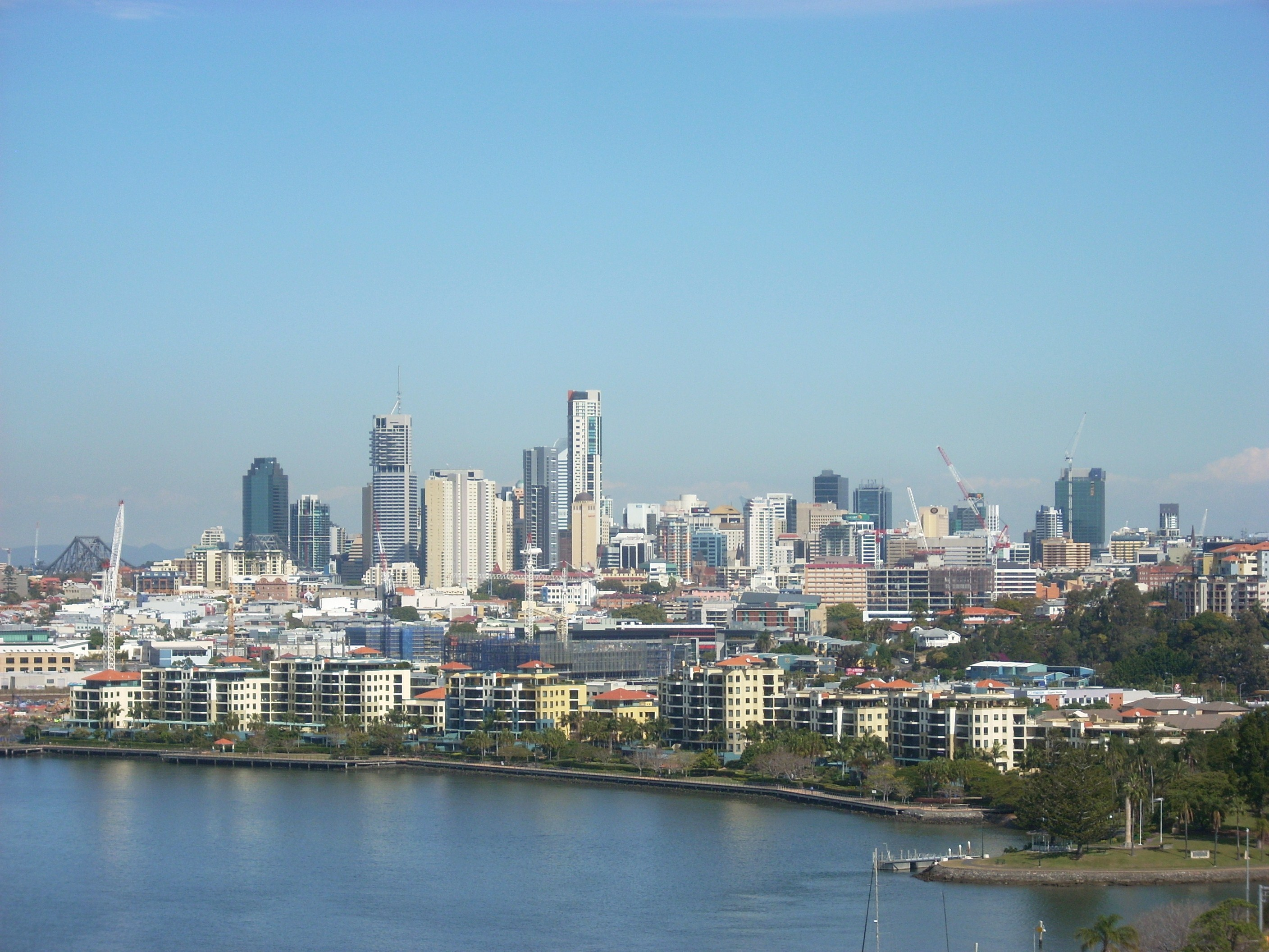 Brisbane CBD from Hamilton 2009